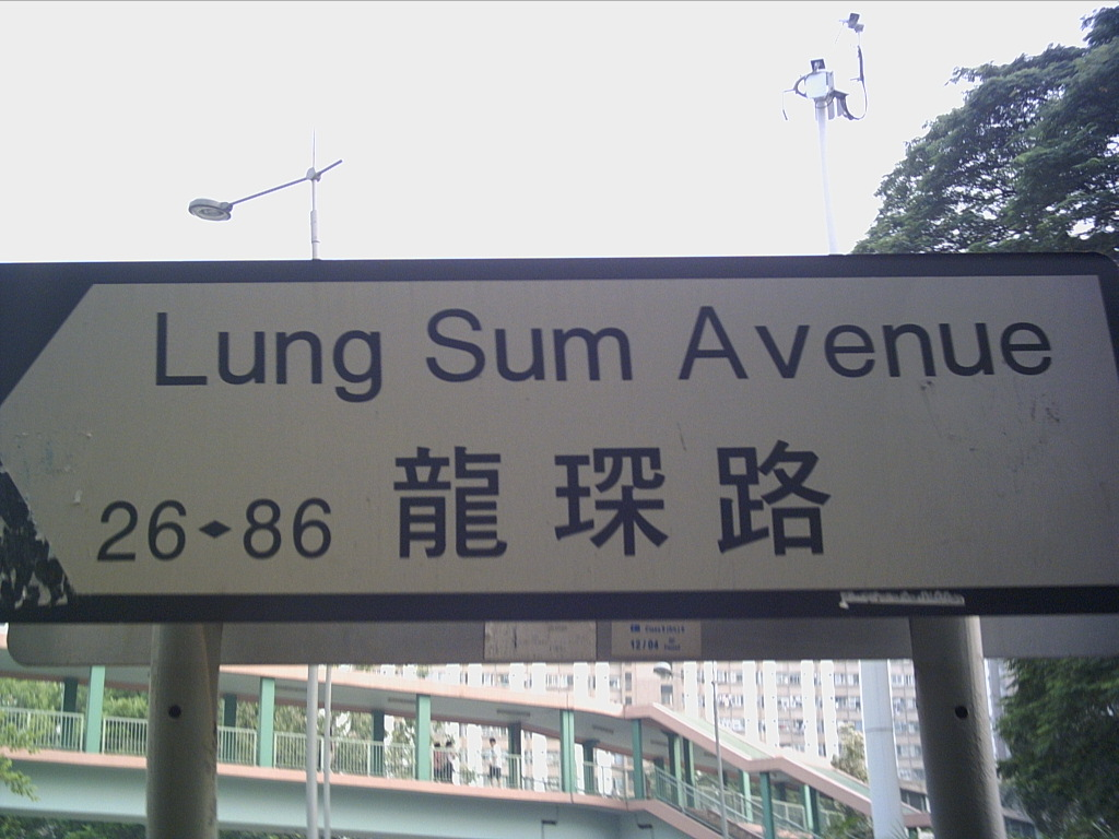 The sign for Lung Sum Avenue. Taken by myself in August, 2006.